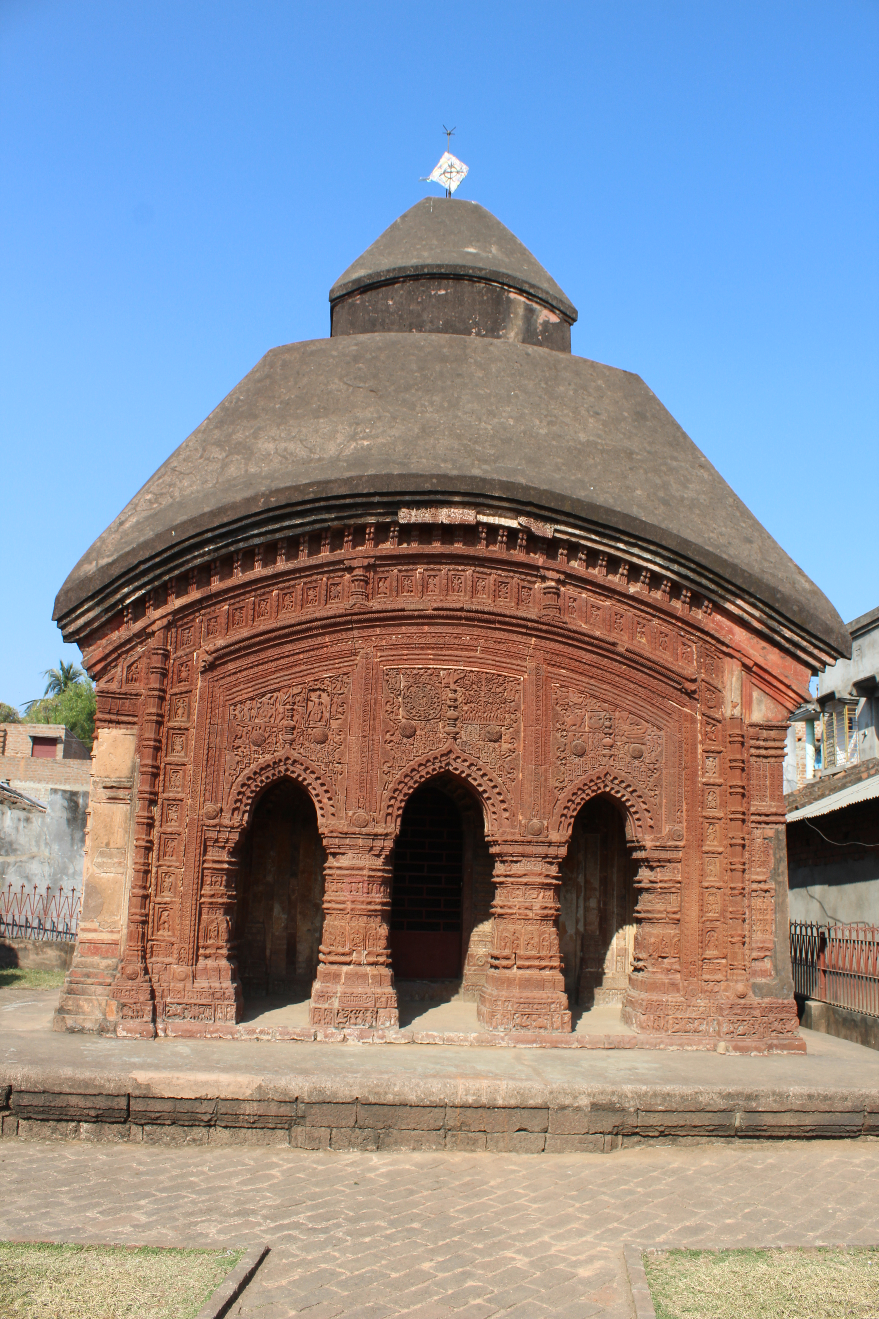 Damodar temple of Siuri, Aat Chala in structure, one of the finest terracotta temples of Birbhum district.